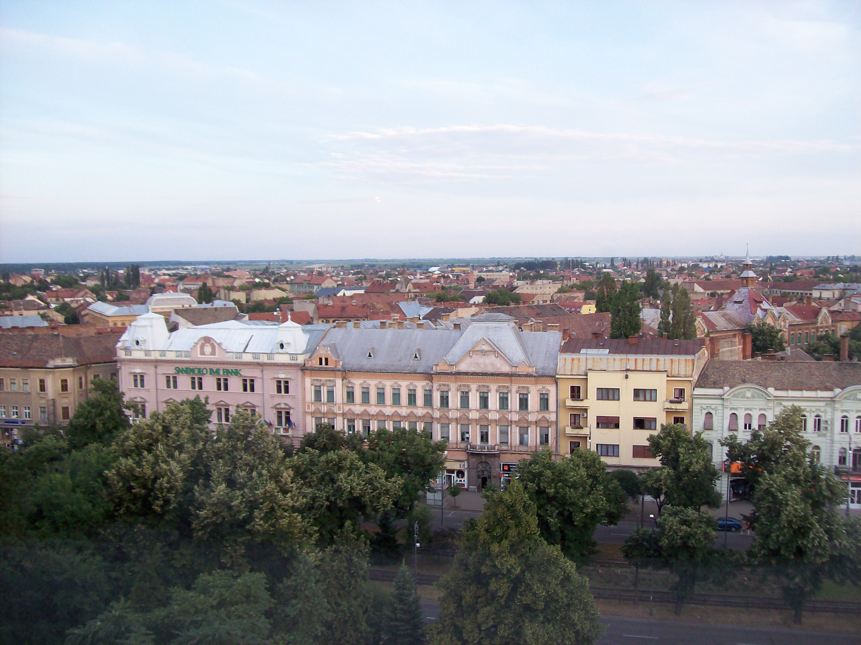 View on the city of Arad in Romania